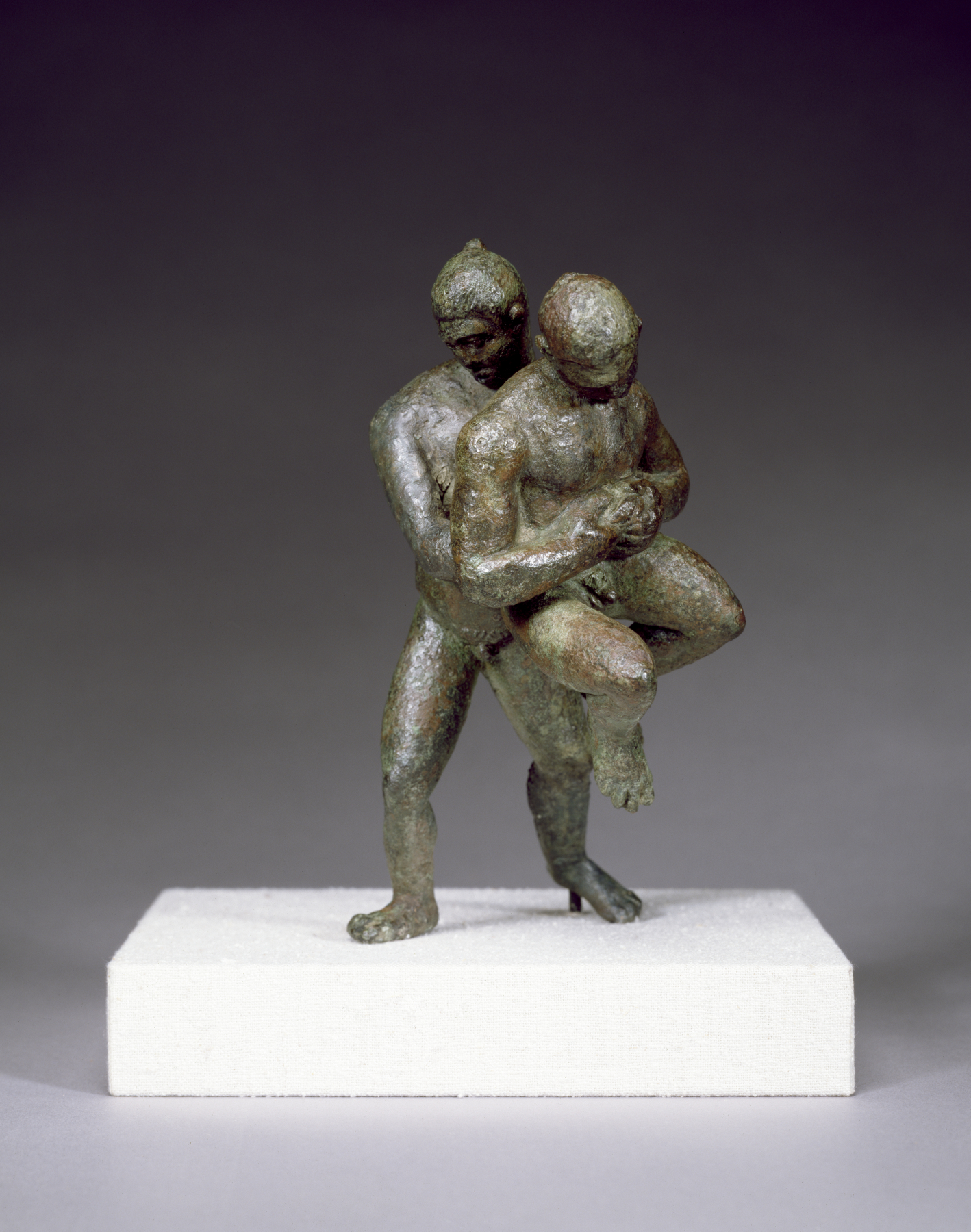 The knotted hairstyle of the wrestlers indicates that they are professional competitors, participating in one of the most popular Greek athletic contests. Contestants were not permitted to strike blows, but were allowed to break their opponents' bones.